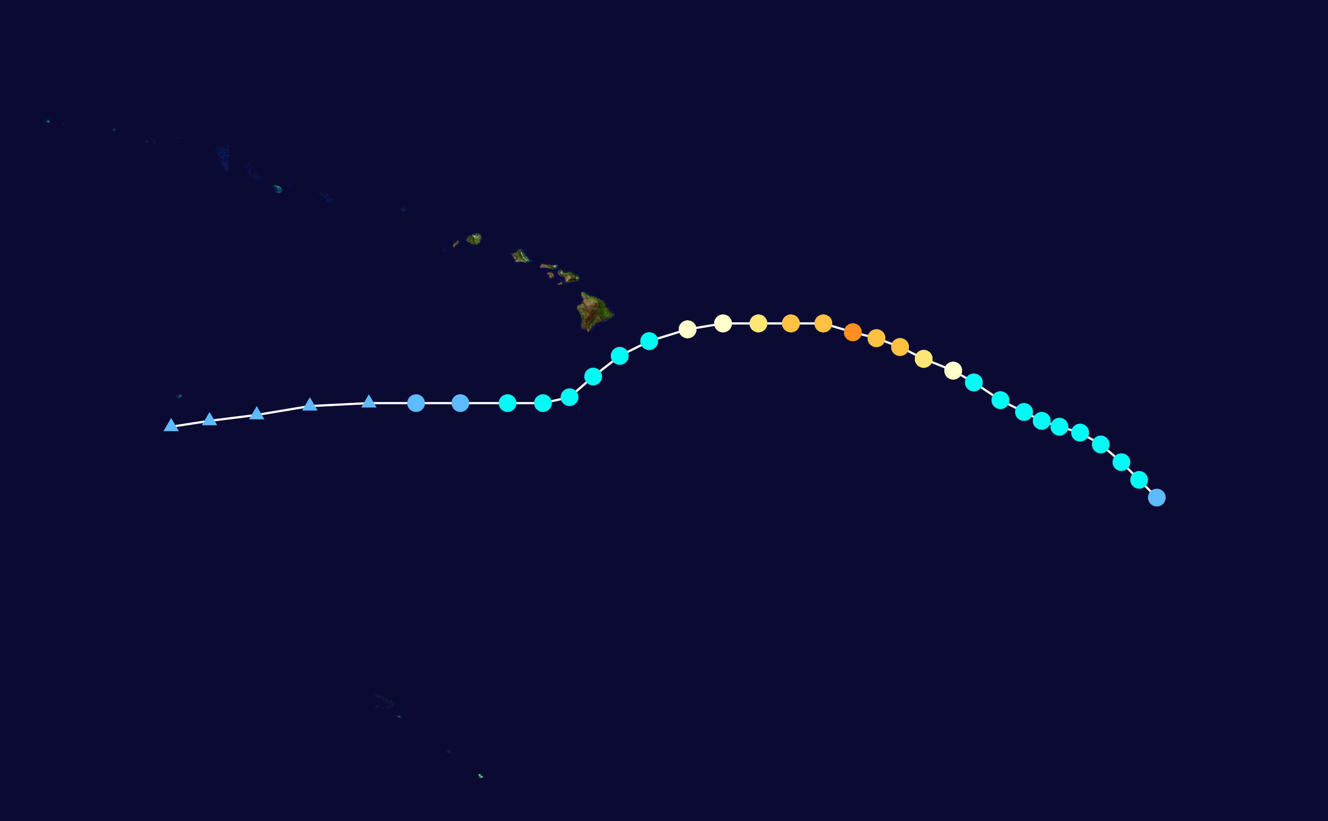 Track map of Hurricane Madeline of the 2016 Pacific hurricane season. The points show the location of the storm at 6-hour intervals. The colour represents the storm's maximum sustained wind speeds as classified in the Saffir–Simpson scale (see below), and the shape of the data points represent the nature of the storm, according to the legend below. Saffir–Simpson scale Tropical depression≤38 mph≤62 km/h Category 3111–129 mph178–208 km/h Tropical storm39–73 mph63–118 km/h Category 4130–156 mph209–251 km/h Category 174–95 mph119–153 km/h Category 5≥157 mph≥252 km/h Category 296–110 mph154–177 km/h Unknown Storm type Tropical cyclone Subtropical cyclone Extratropical cyclone / Remnant low / Tropical disturbance / Monsoon depression